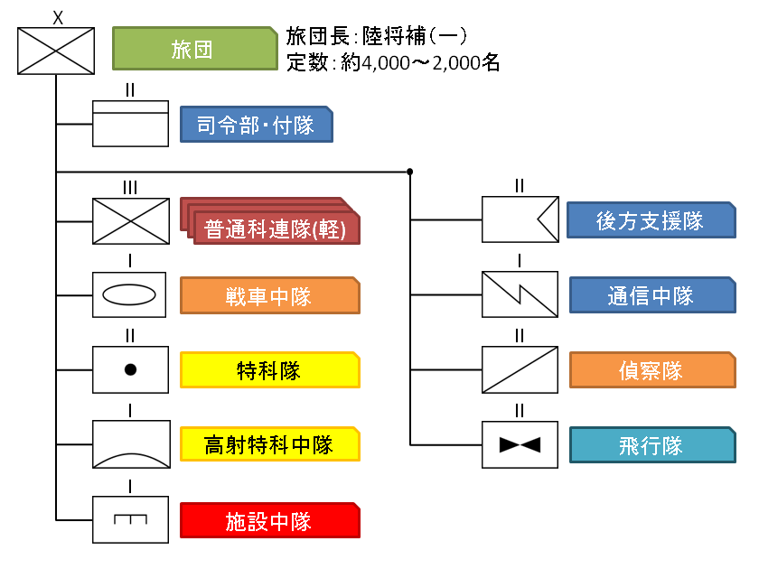 Organization of the Brigade of the Japan Ground Self-Defense Force.